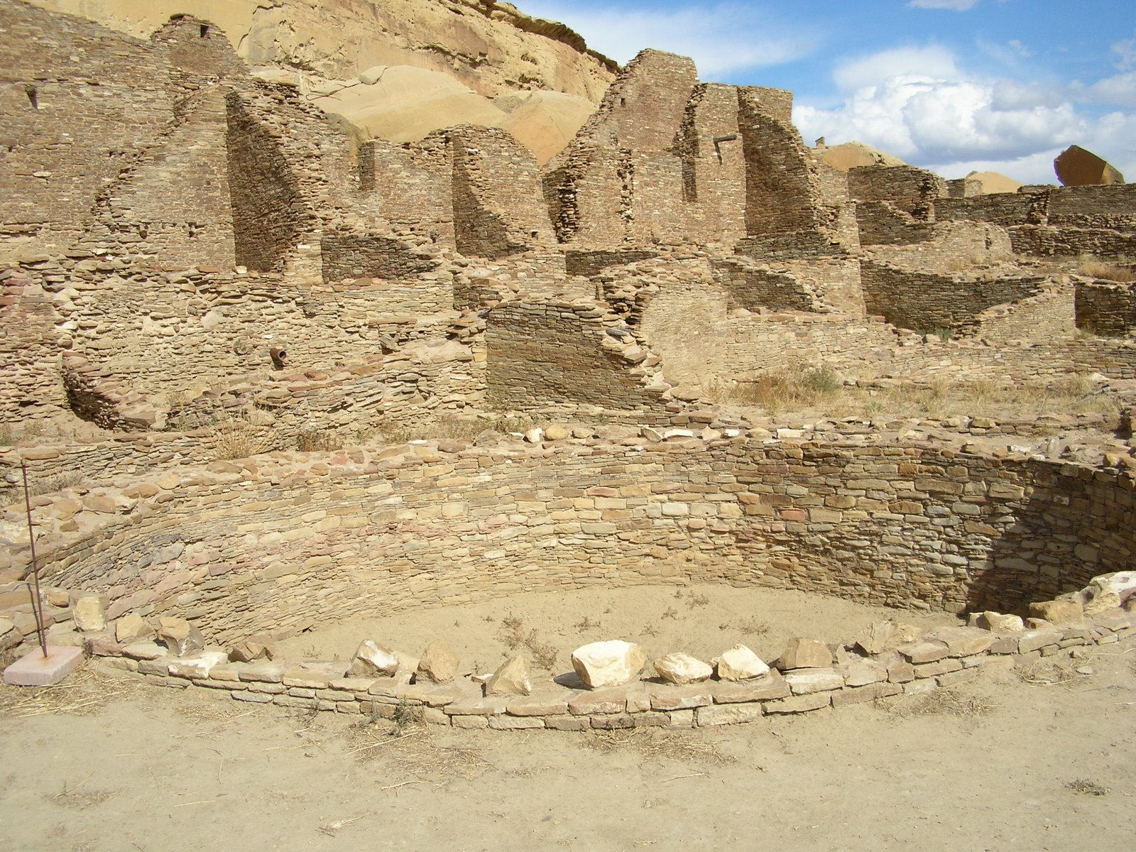 Some of the ruins and one of the many kivas in Pueblo Bonito - Chaco Culture National Historical Park - 09.19.09